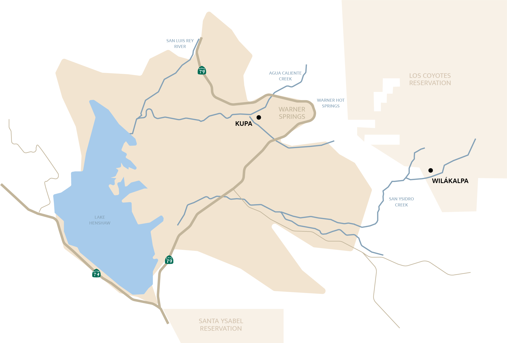 Map of Cupeño villages with Warner Springs for reference. Information from Handbook of North American Indians, Cupeño chapter by Lowell John Bean and Charles R. Smith